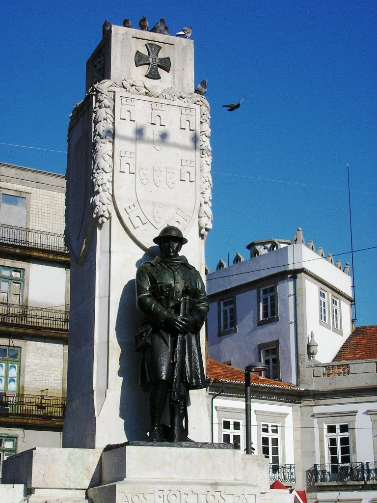 Monument to the Portuguese soldiers killed in the First World War (1914-1918) in Porto, Portugal.